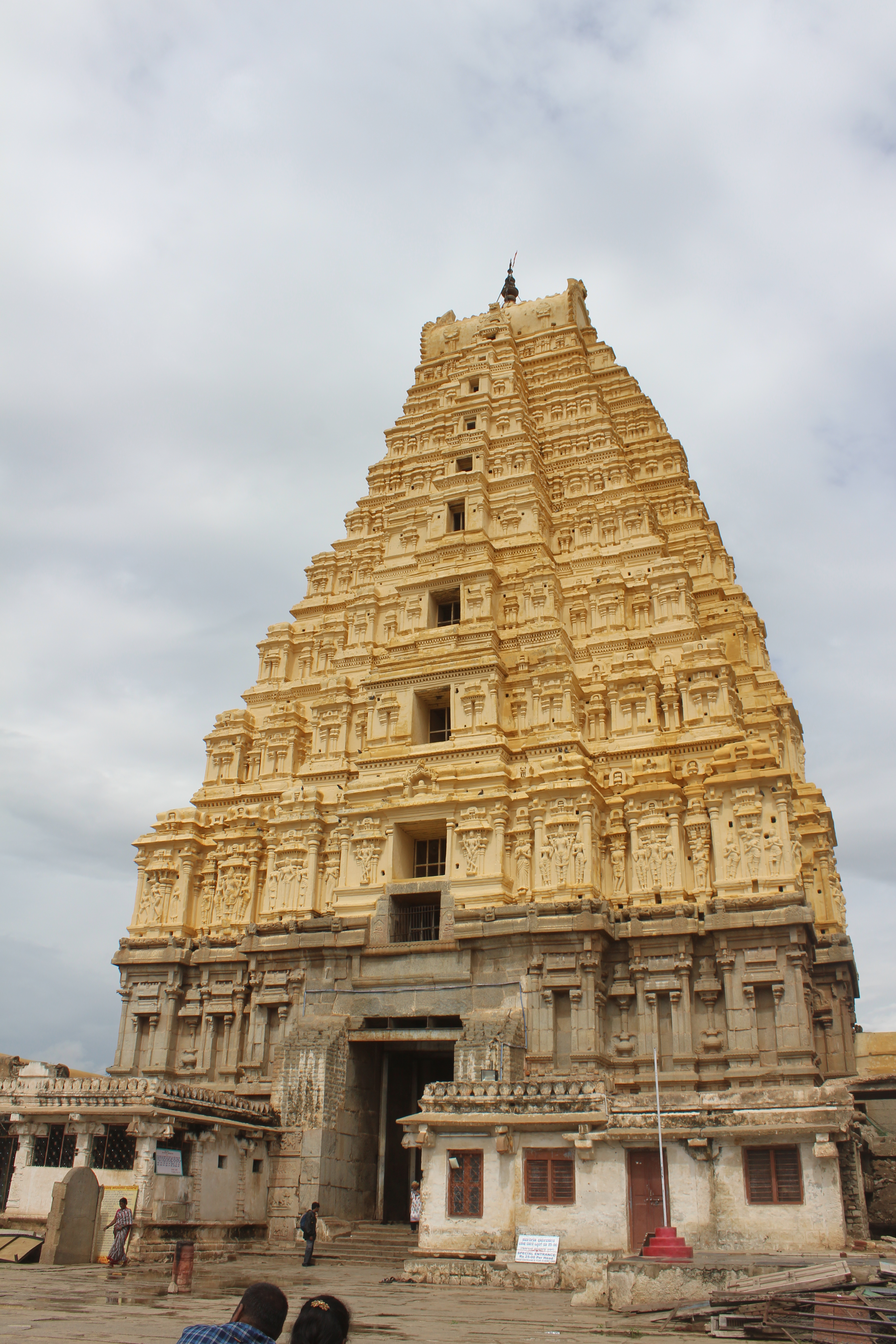 The entry gate of Virupakhya Temple from inside the Temple complex